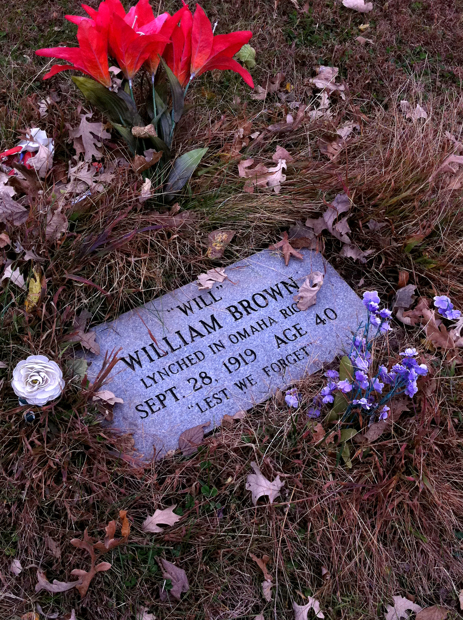 Gravestone of William Brown in Potter's Field, Omaha, Nebraska.